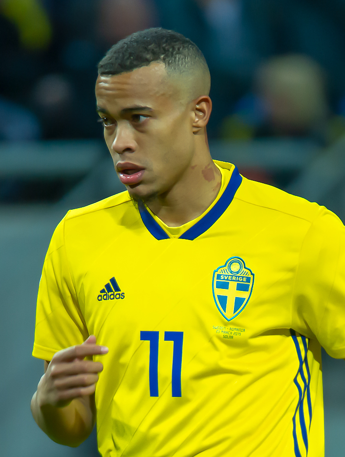 UEFA EURO qualifiers Sweden vs Romaina 20190323